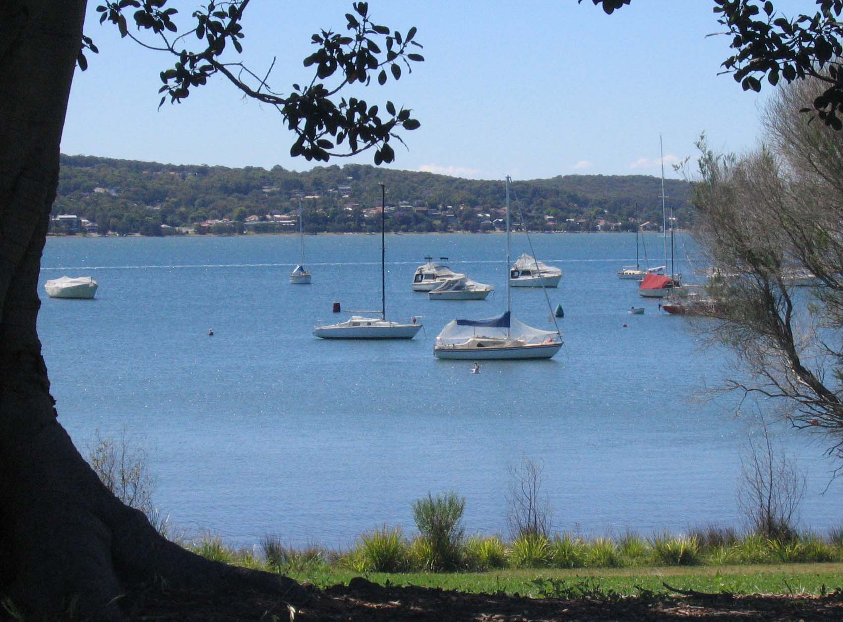 View across Lake Macquarie to Speers Point in Australia. Author: suburbanbloke on Flickr. (Note the copyright status of 'some rights reserved').